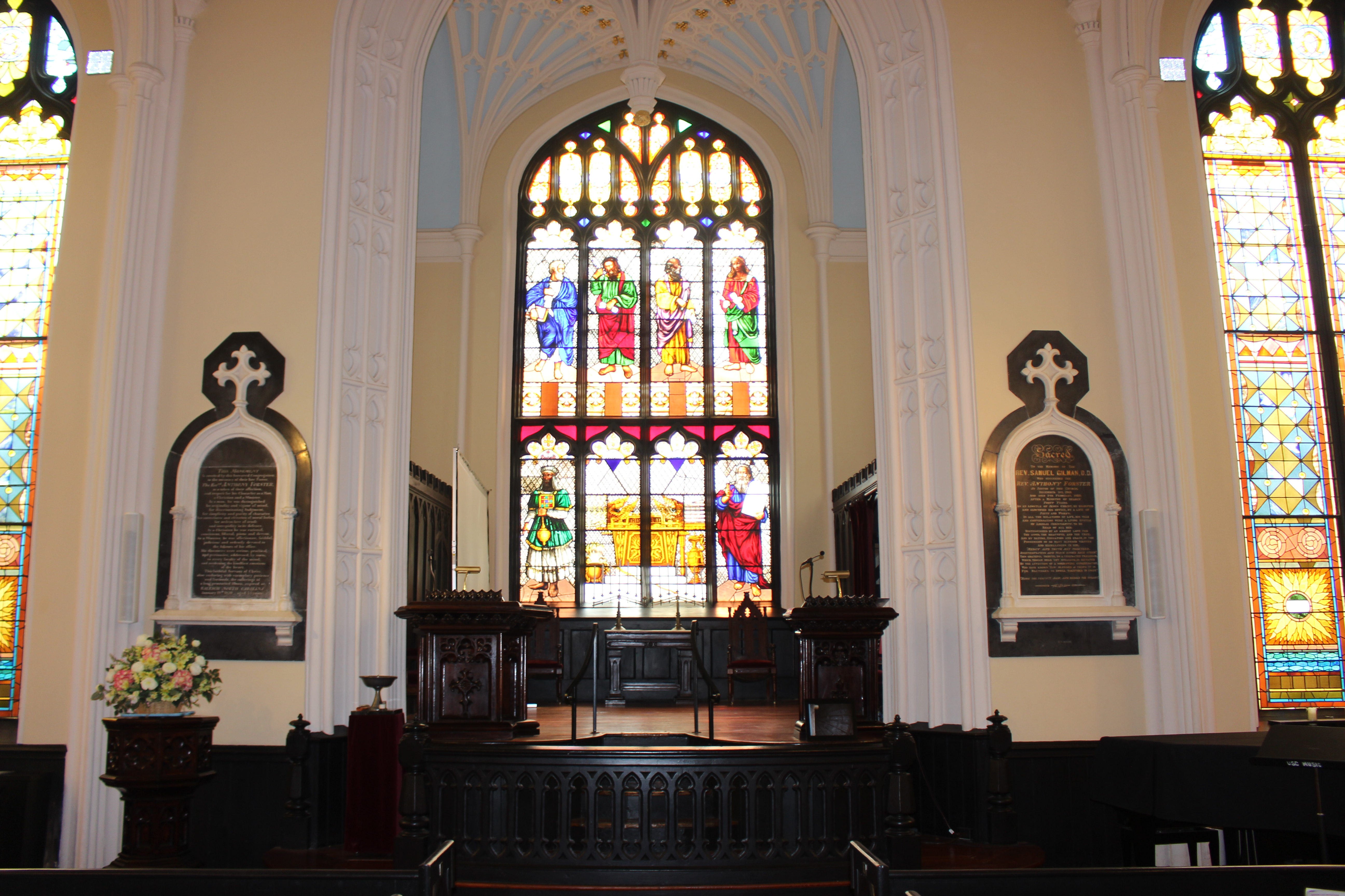 Unitarian Church, Charleston, Charleston County, South Carolina